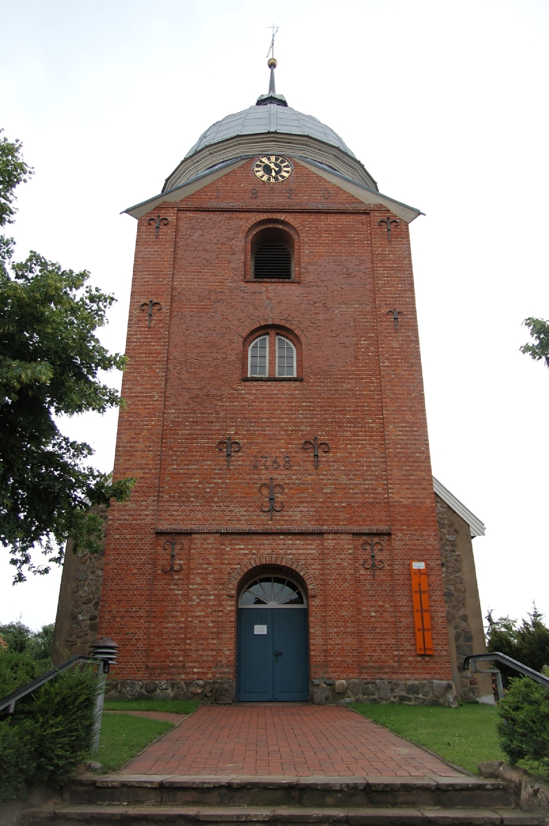 Pictures